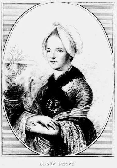 Clara Reeve (1725-1803)